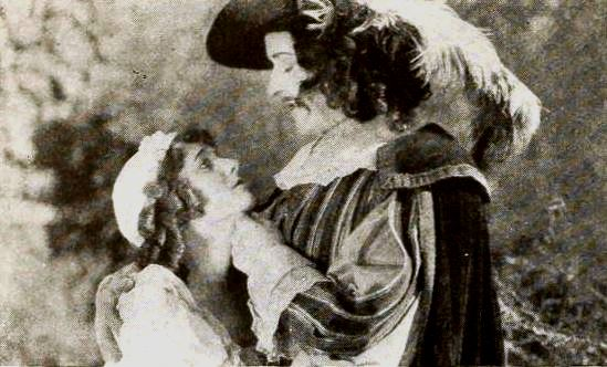 Still from the American film serial The Adventures of Robinson Crusoe (1922) with Gertrude Olmstead and Harry Myers, on page 60 of the June 1922 Photoplay Magazine.